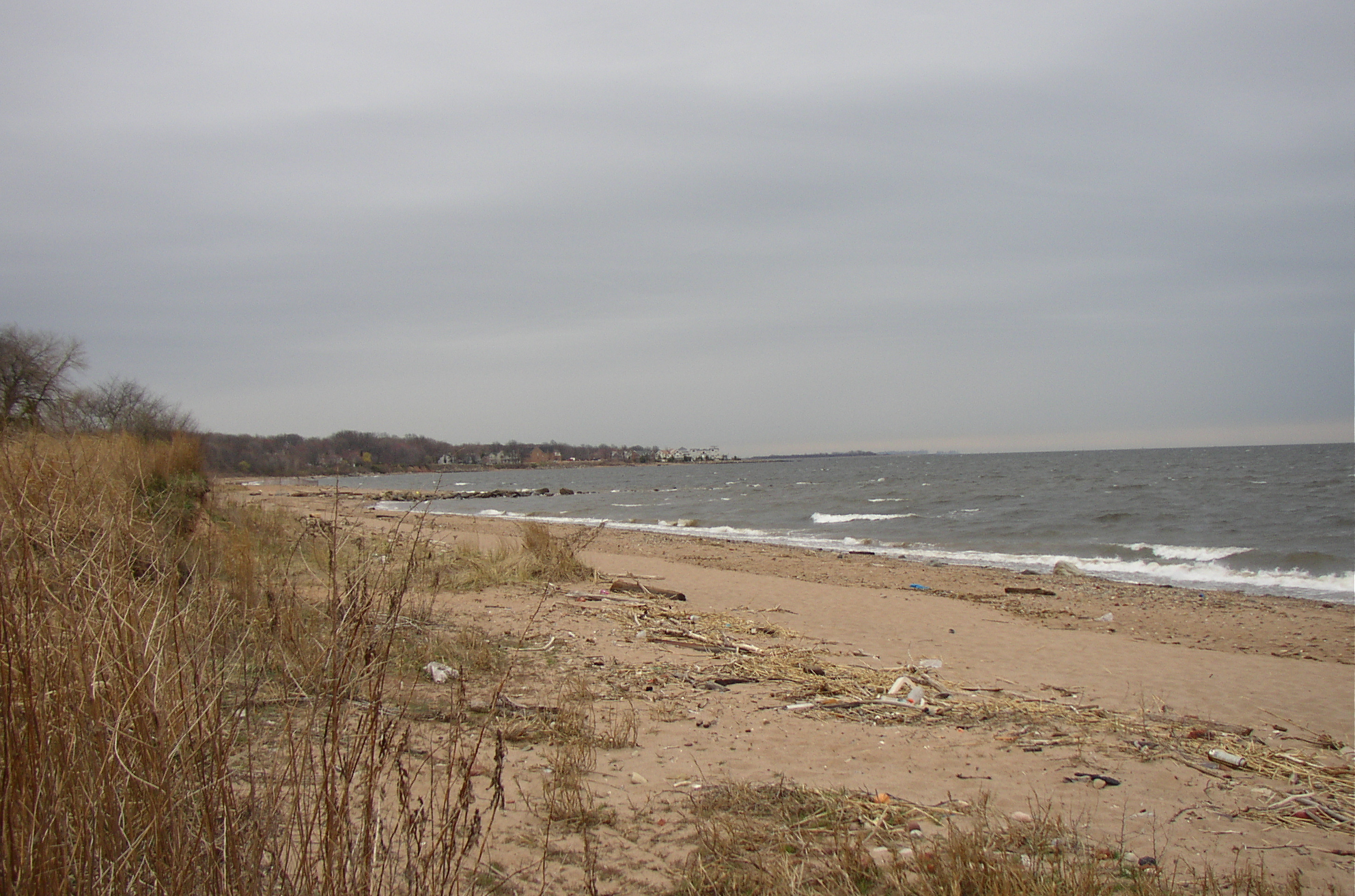 Beach in Wolfes Pond Park on Staaten Island looking northeast